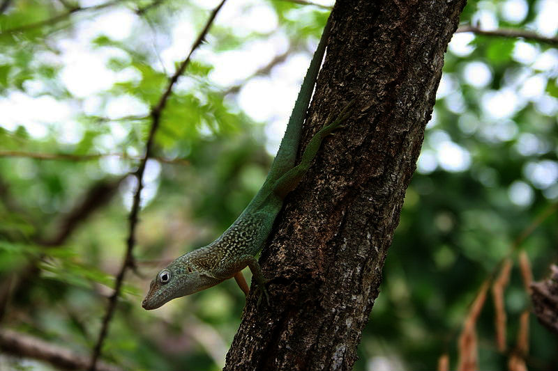 Anolis marmoratus giraffus